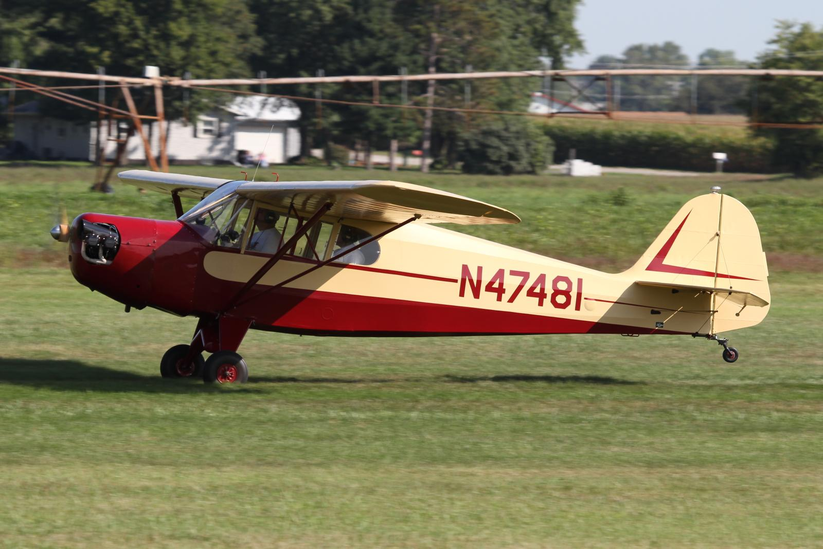 1943 Taylorcraft DCO-65 C/N 5082